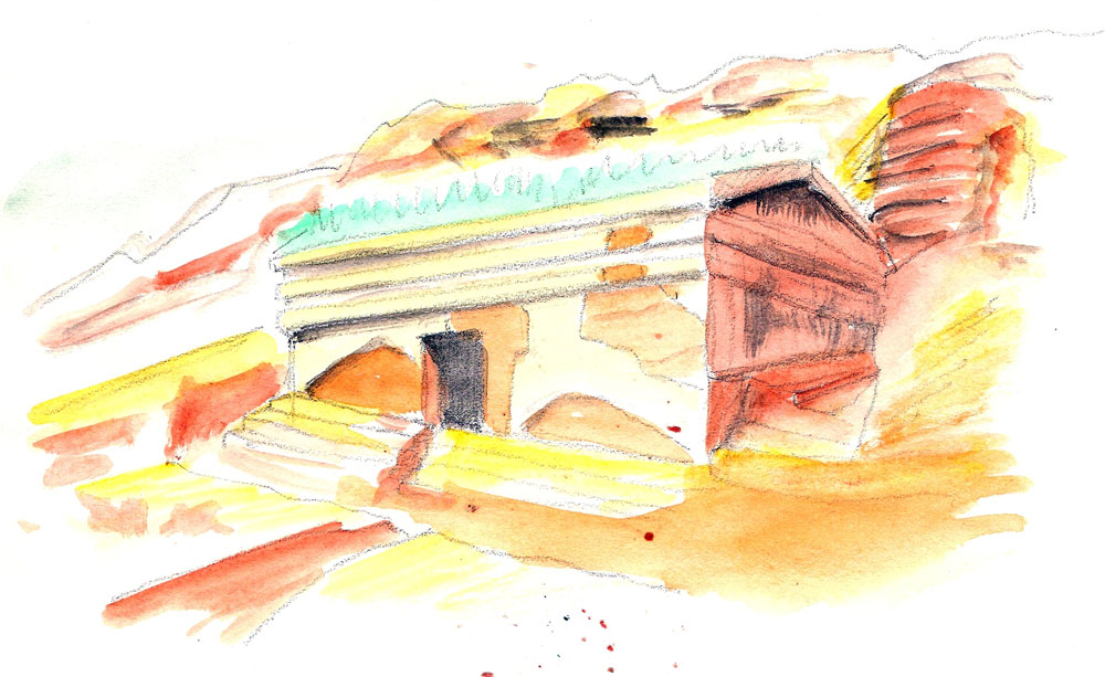 My sketch della Tomba del Dado